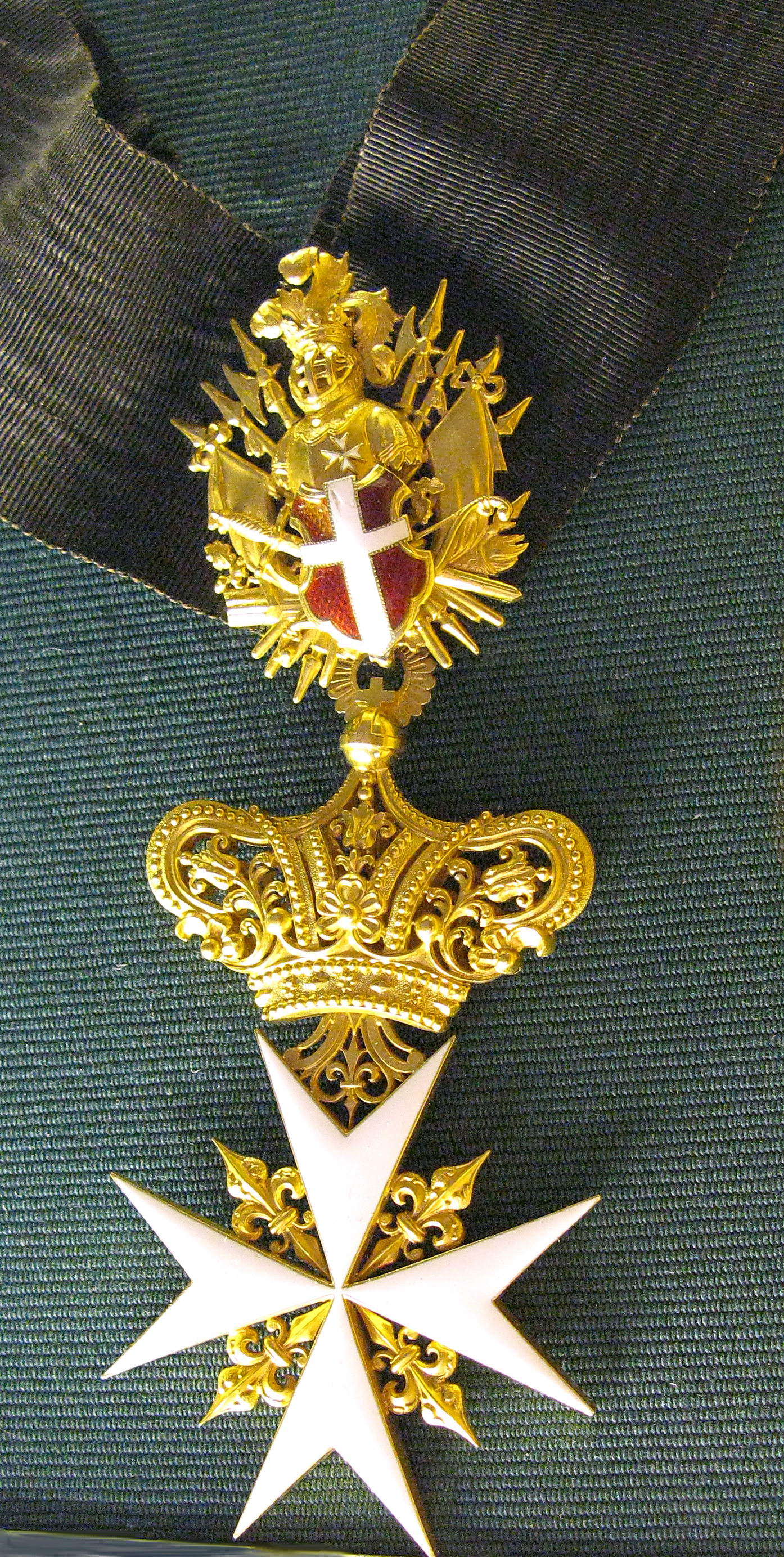 Cross of Sovereign Military Hospitaller Order of St. John of Jerusalem of Rhodes and of Malta